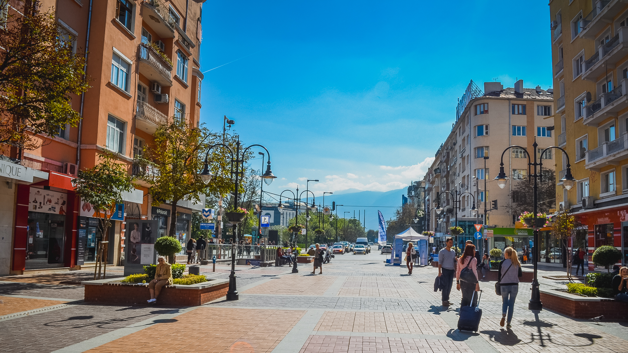 Vitosha Blvd. in Sofia, Bulgaria.